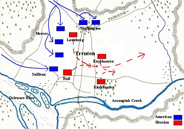 The opening stages of the Battle of Trenton.